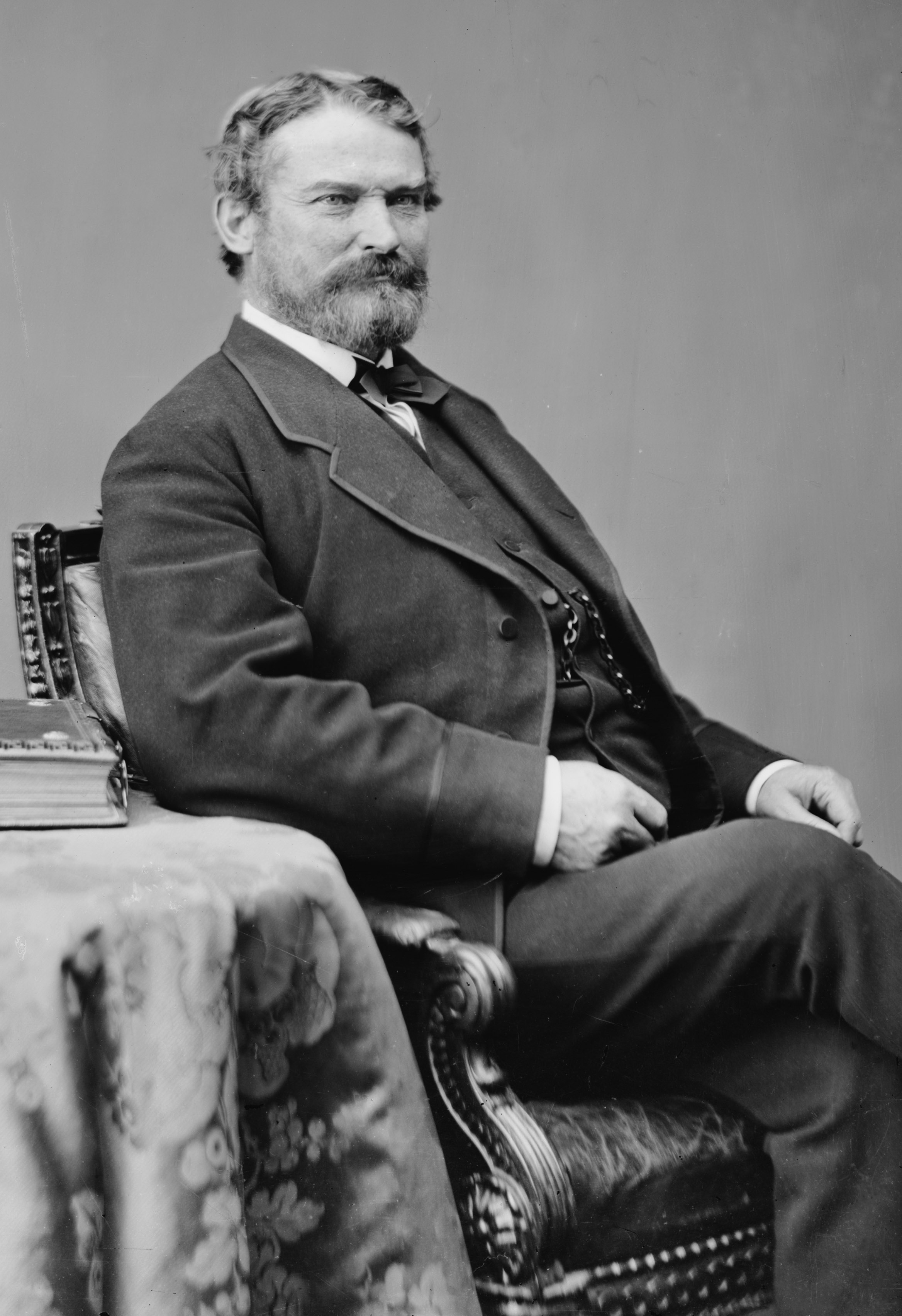 Source: US LOC James Rood Doolittle, US Senator from Wisconsin.